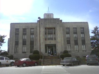 Franklin County Courthouse